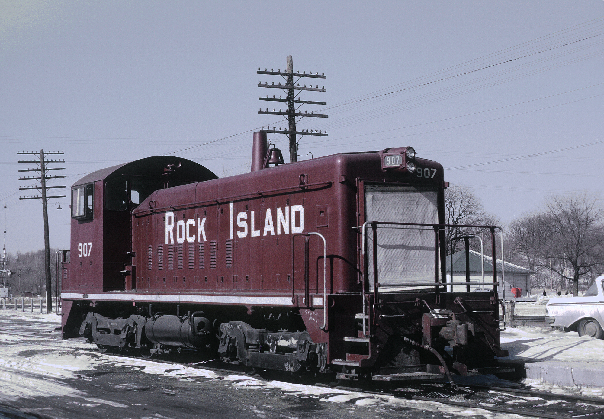 Photo by Roger Puta